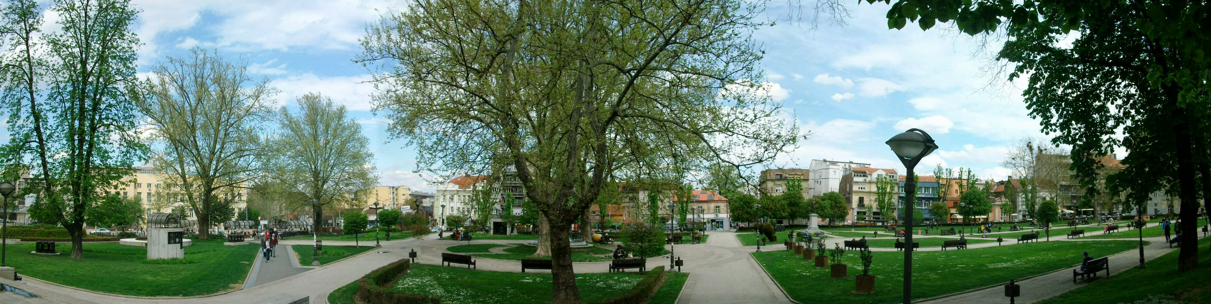 Panoramic view of Vukov spomenik park and quarter